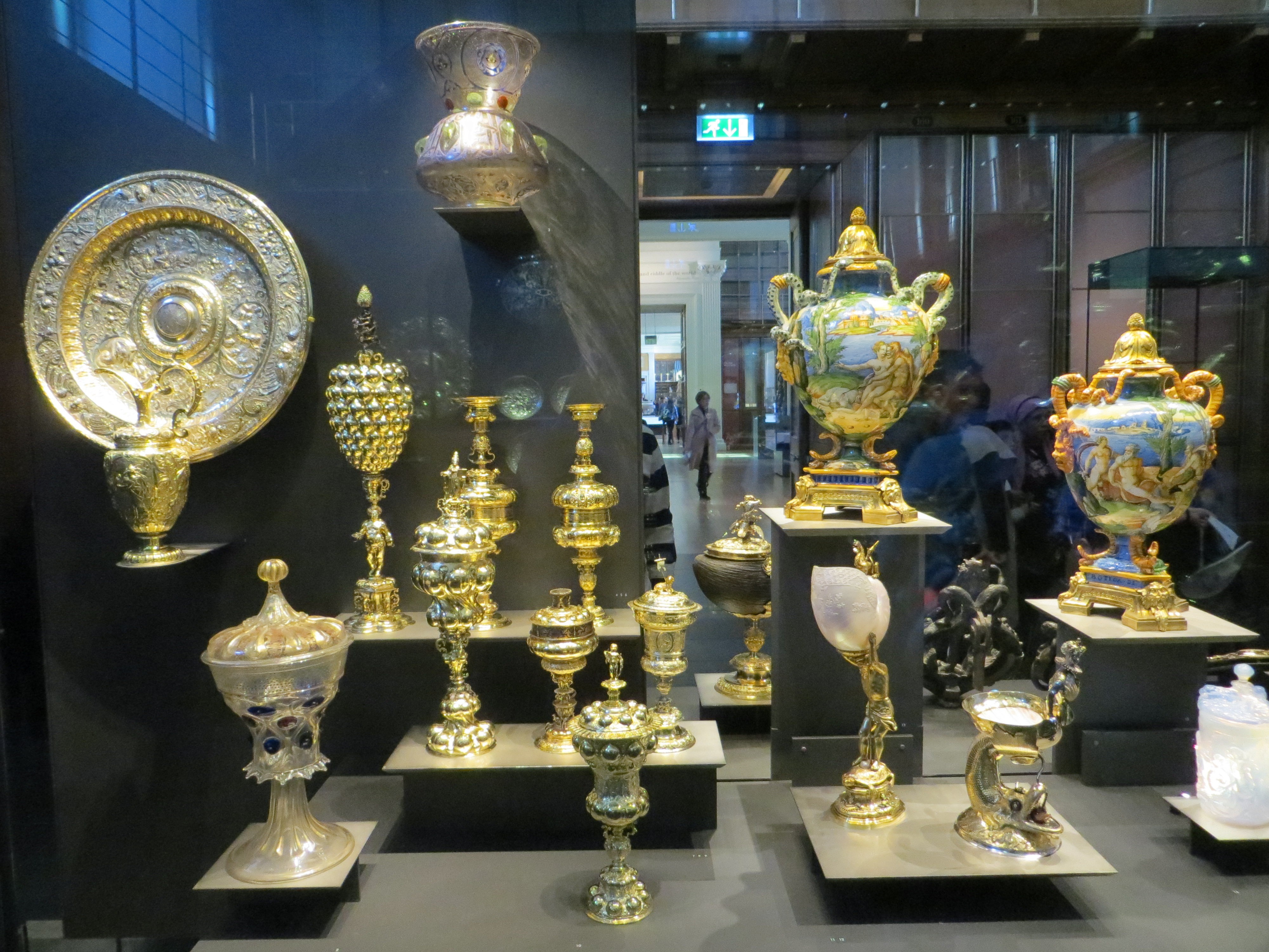 Part of the Waddesdon Request on display in the British Museum